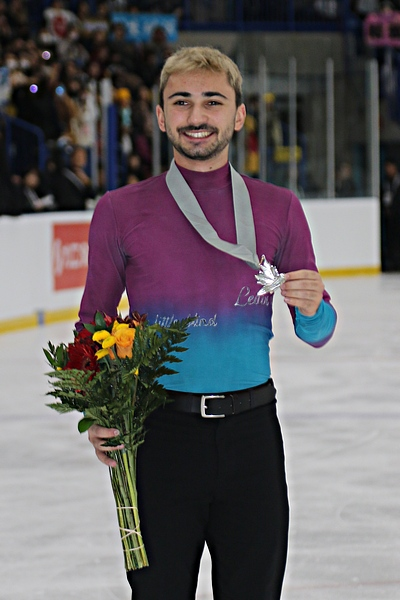 Kévin Aymoz at the 2019 Autumn Classic International - Awarding ceremony